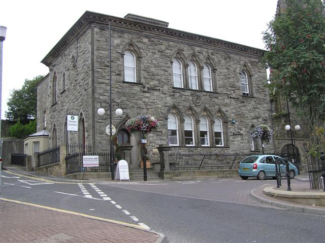 Visitor's Centre / Council Offices, Dungannon They are located at the top of the square